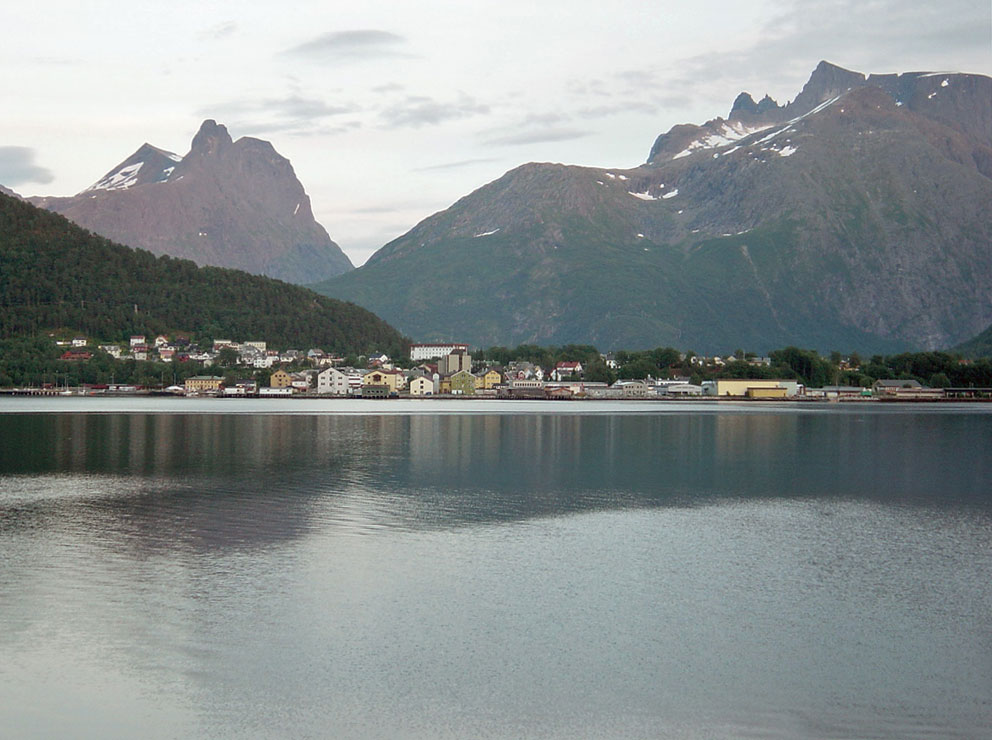 Åndalsnes, in Norway